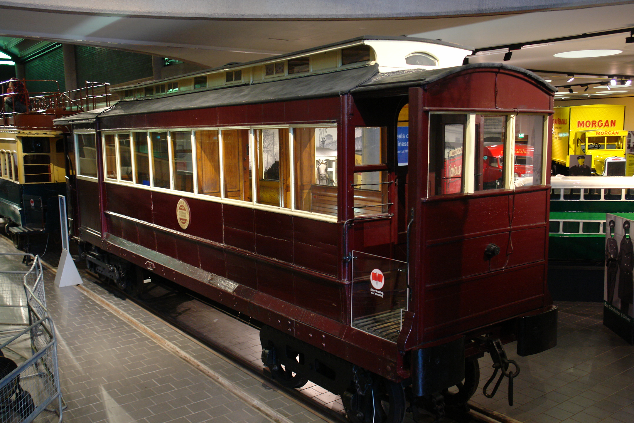 Ulster Transport Museum, Cultra, Bessbrook and Newry Tramway Company, Tram No 2